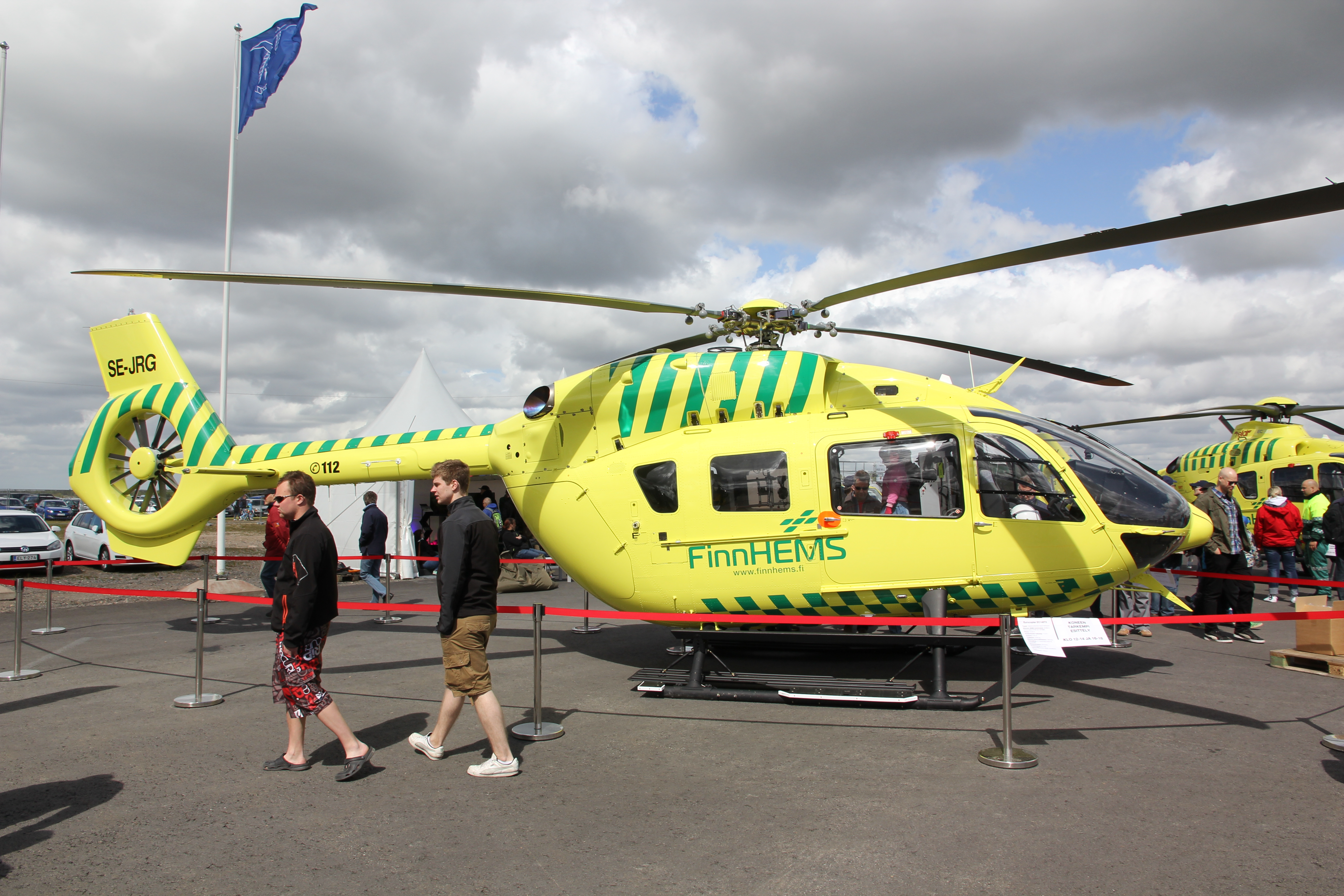 FinnHems Eurocopter EC145T2 ambulance helicopter (SE-JRG) in Turku Airshow 2015.